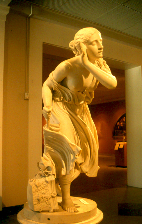 photo by Einar Einarsson Kvaran aka :en:Carptrash 04:41, 28 January 2006 (UTC) for Randolph Rogers Nydia the Blind Flower Girl of Pompeii, University of Michigan Art Museum, Ann, Arbor, Michigan USA